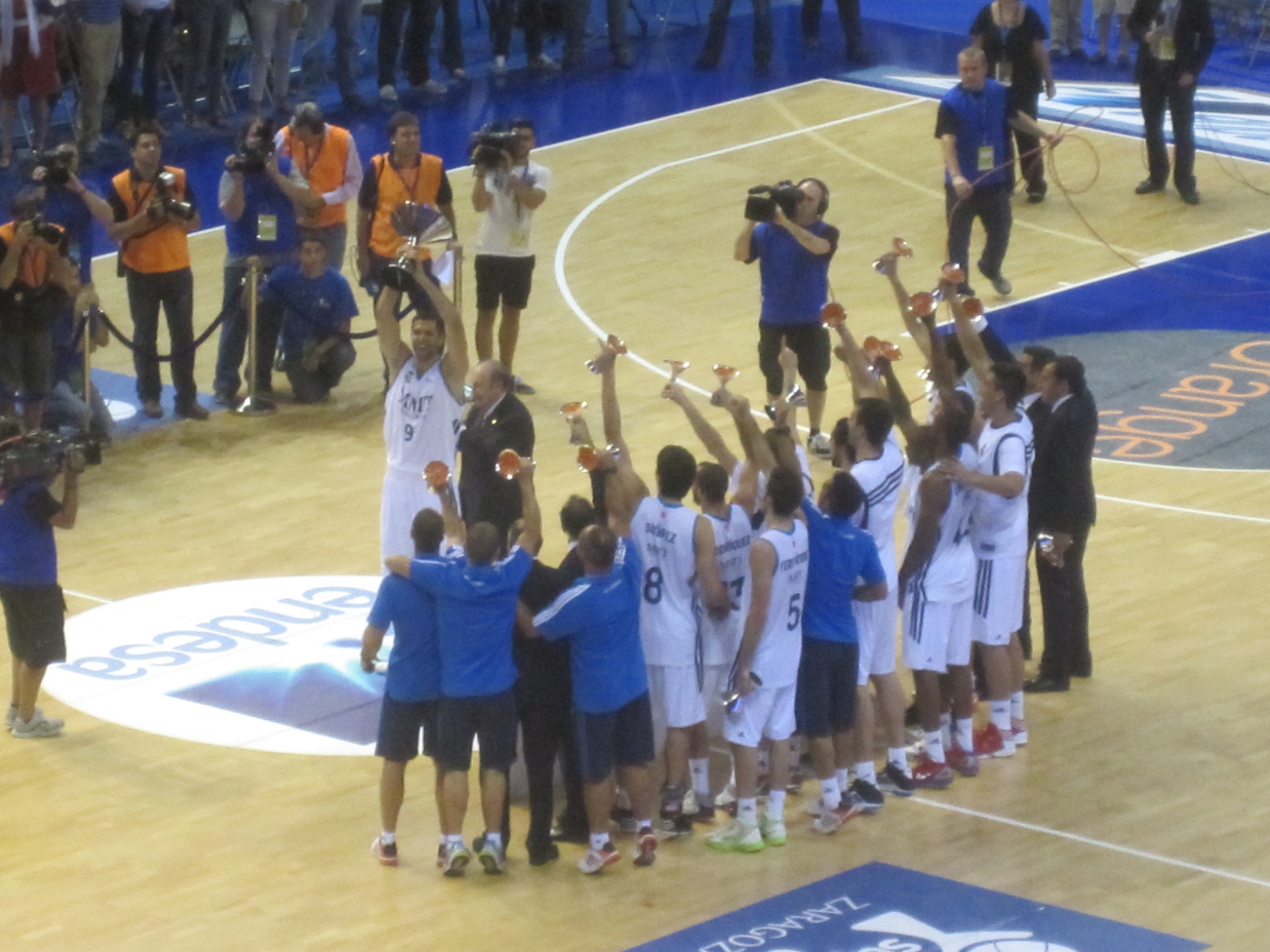 Real Madrid baloncesto winner Super Copa de España 2012